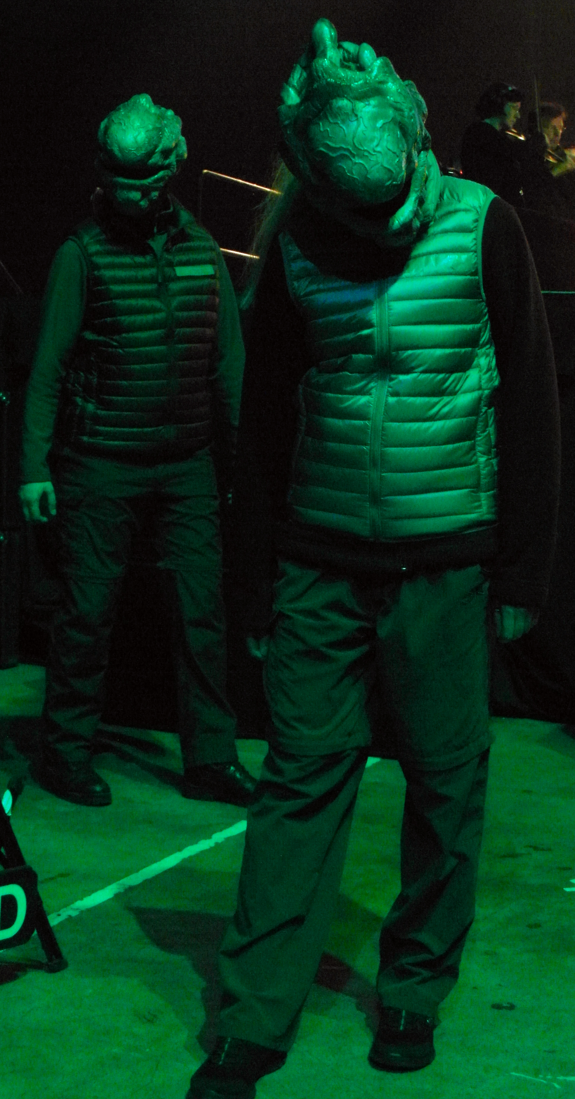 Oh no, there are Dream Crabs in the audience! Is this real or all a dream?! Doctor Who Symphonic Spectacular